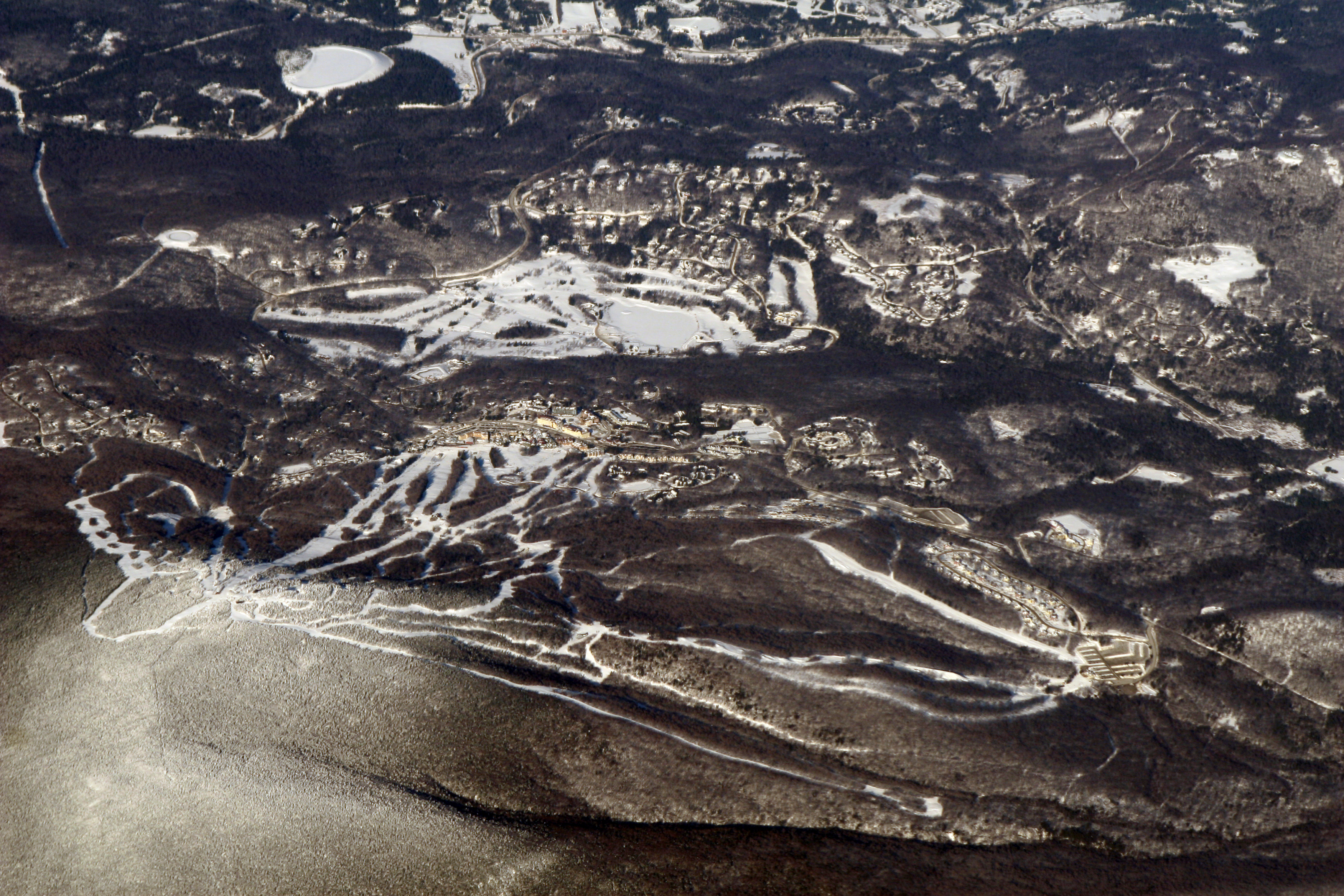 Stratton Mountain ski aerial photo. So we did go skiing here, four days later. Continue with the Skiing at Mt. Snow set for more.